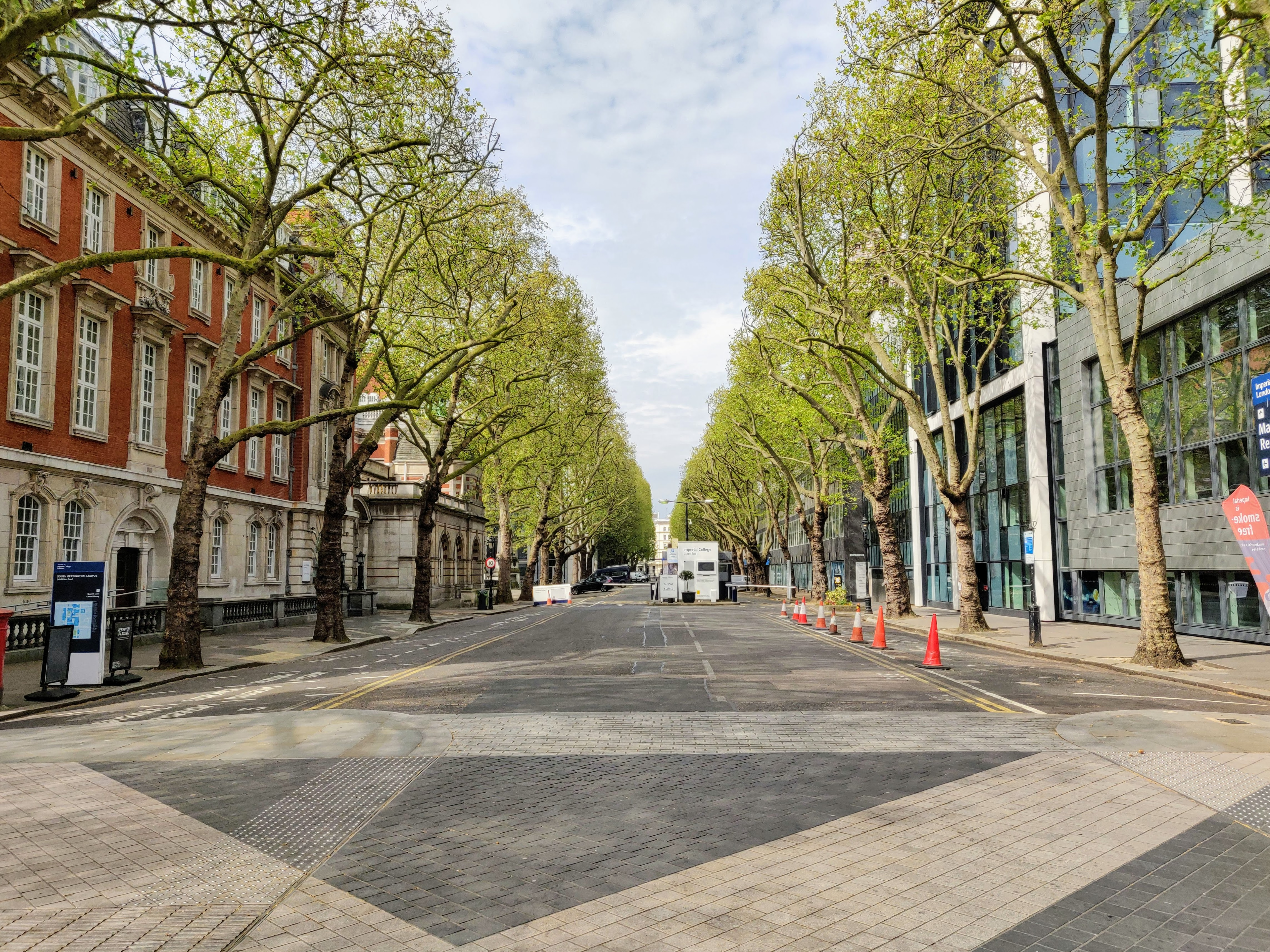 The view of Imperial College Road from Exhibition Road. Many of the colleges departments line the sides of the road.